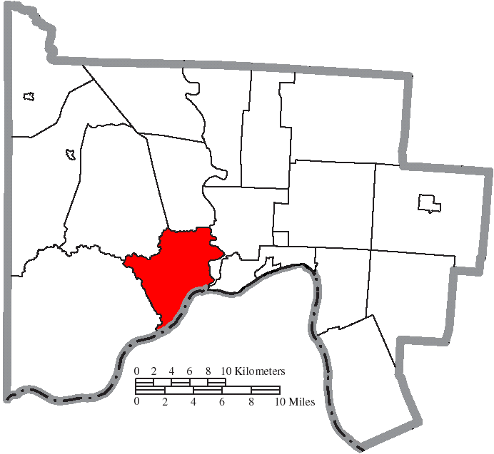 Map of the municipal and township boundaries of Scioto County, Ohio, United States, as of the 2000 census, with the location of Washington Township highlighted. Township borders are shown only in unincorporated areas in order to differentiate incorporated and unincorporated areas more clearly.